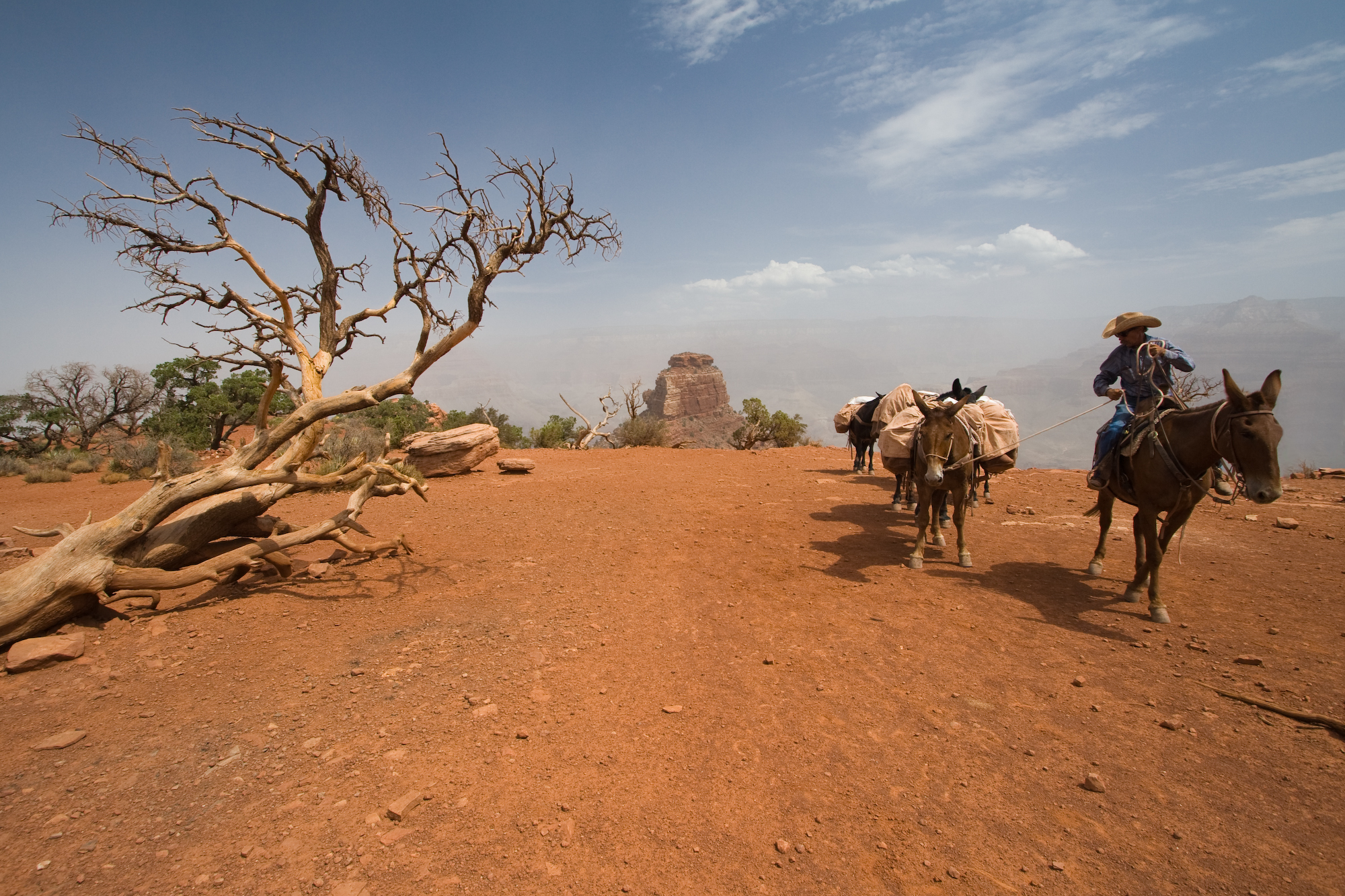 Cedar Ridge, South Kaibab hiking trail in Grand Canyon National Park, Arizona, USA. This trail is also used by the pack mules which supply Phantom Ranch with all of its supplies and then pack out all of its waste.